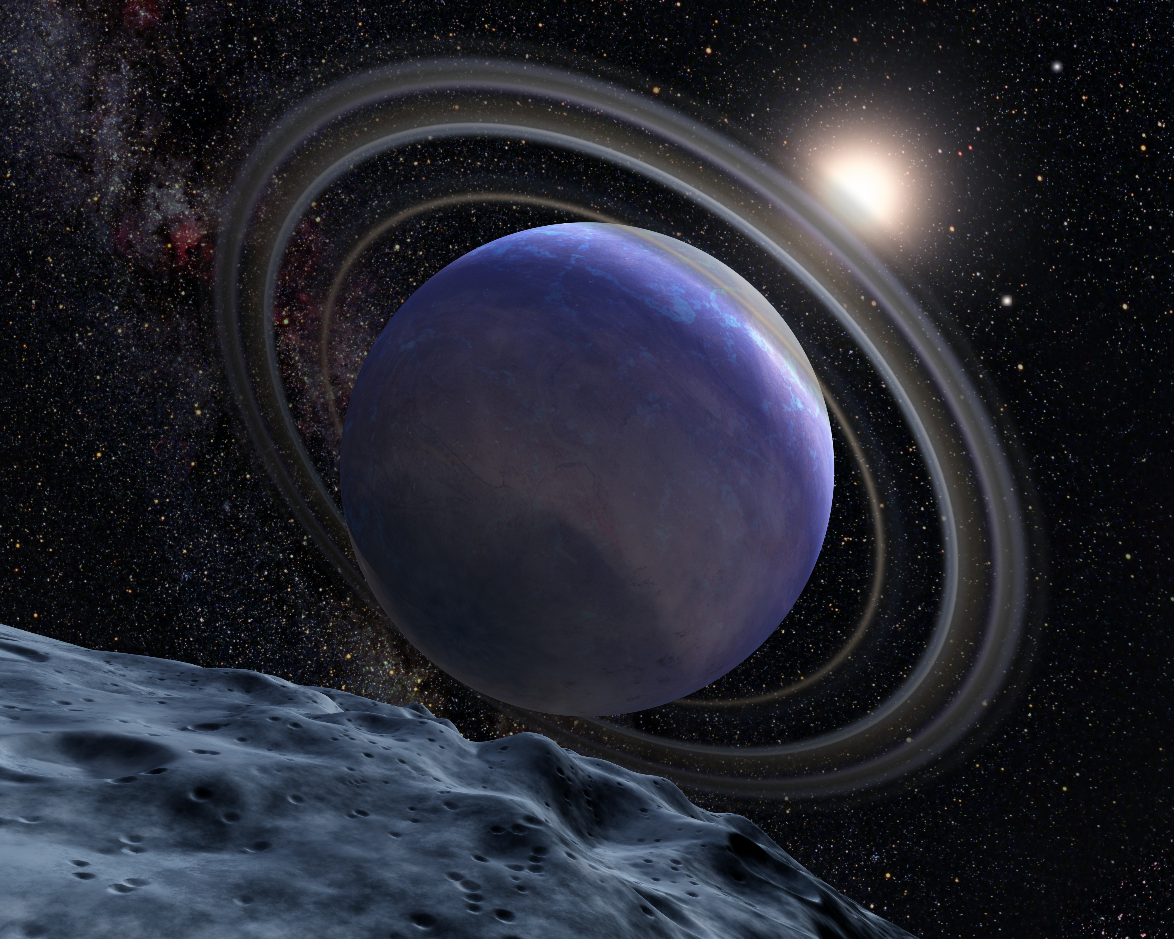 This is an artistic illustration of the giant planet HR 8799 b. The planet was first discovered in 2007 at the Gemini North observatory. It was identified in Hubble NICMOS archival data in a follow-up search to see if Hubble had also serendipitously imaged it. The planet is young and hot, at a temperature of 1,500 °F (820 °C). It is slightly larger than Jupiter and may be at least seven times more massive (~7 MJ). Analysis of the NICMOS data suggests the planet has water vapor in its atmosphere and is only partially cloud covered. It is not known if the planet has rings or moons, but circumplanetary debris is common among the outer planets of our solar system.